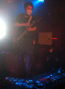 Melt Banana live in Hamburg/Germany 2010